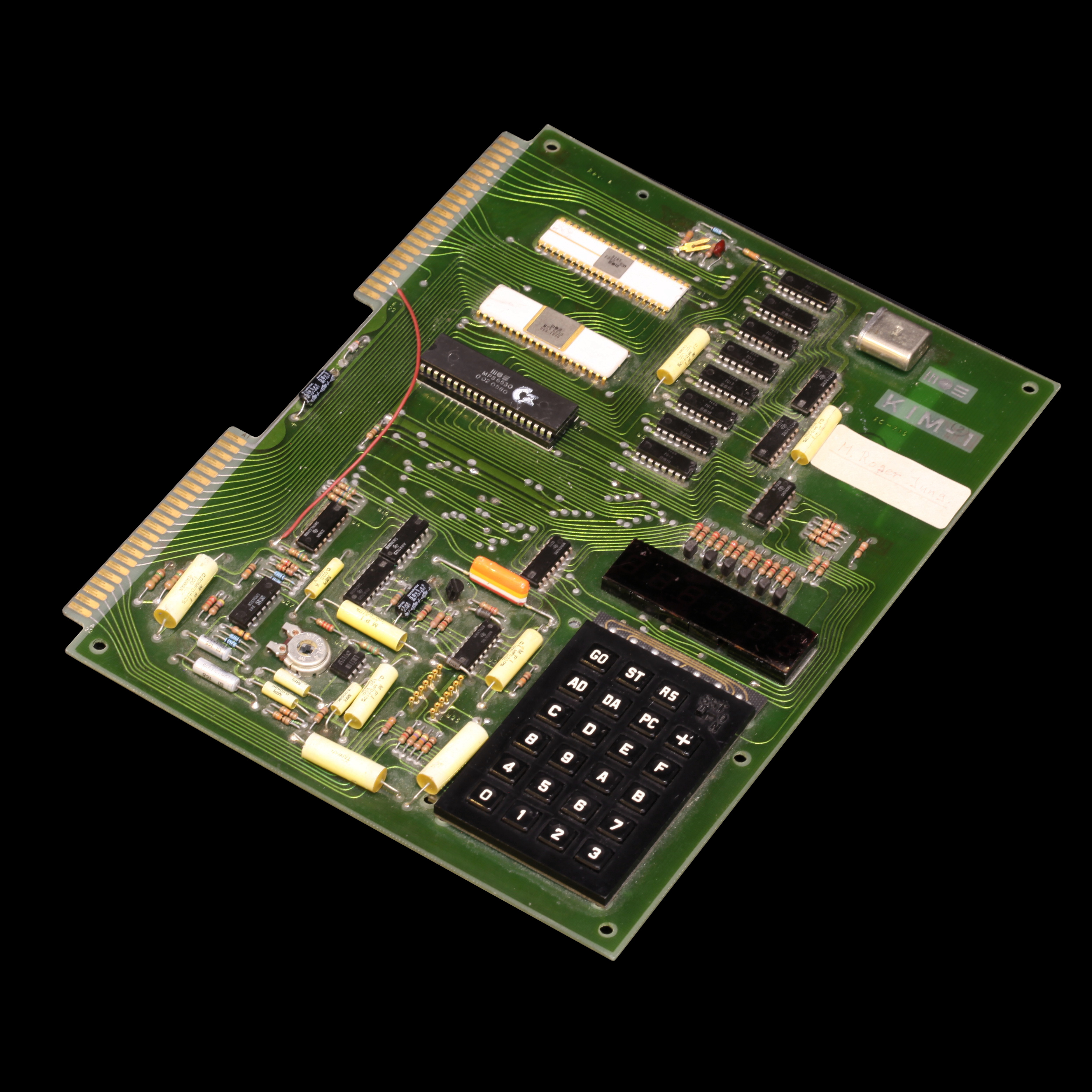 MOS KIM-1 computer. On display at the Musée Bolo, EPFL, Lausanne.